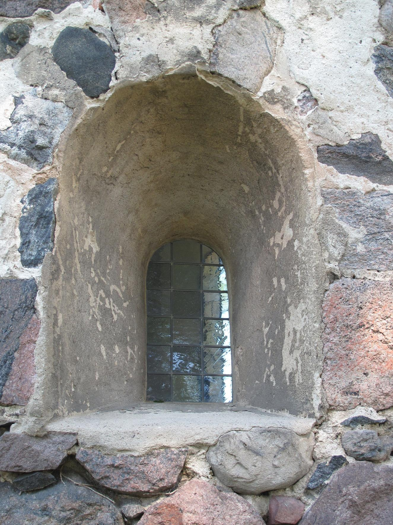 Romanesque window of the Village church Wildenbruch. Listed Fieldstone church, built in the 13th century. The timber framed addition on the center of the west tower was built in 1737 and after modifications in the meantime1992 reconstructed according to the plans from 1737. Contrary to many different depictions it is no Fortified church (german: Wehrkirche). Wildenbruch is a part of Michendorf in the district Potsdam-Mittelmark, state Brandenburg, Germany.